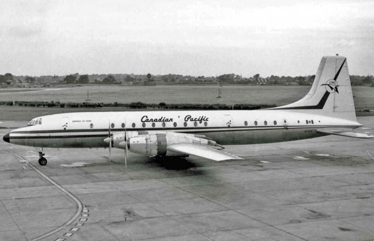 Bristol 175 Britannia Series 314 of Canadaian Pacific Air Lines at Manchester Airport